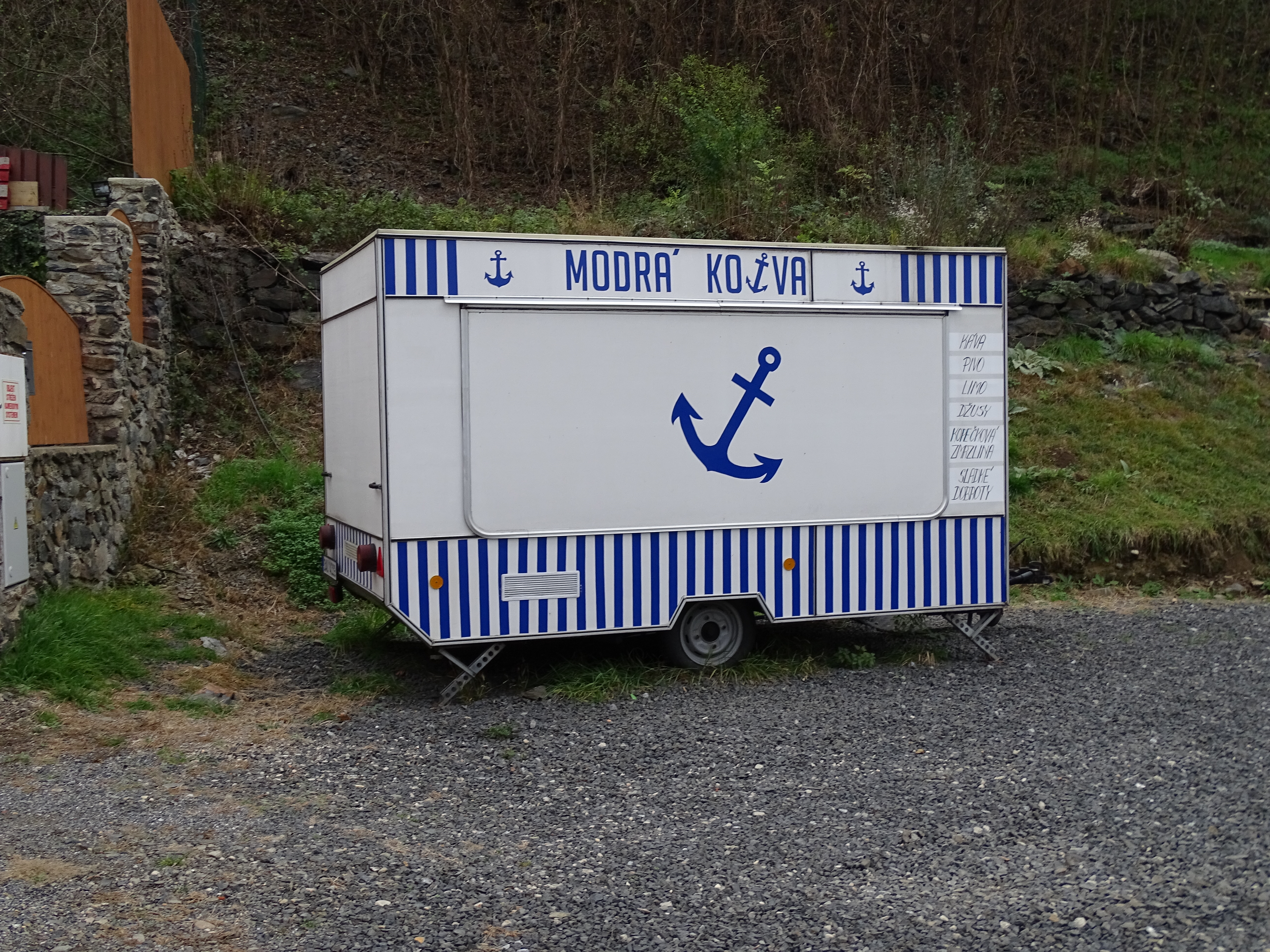 Prague-Bohnice, Czech Republic. V Zámcích 312/12, trailer buffet.